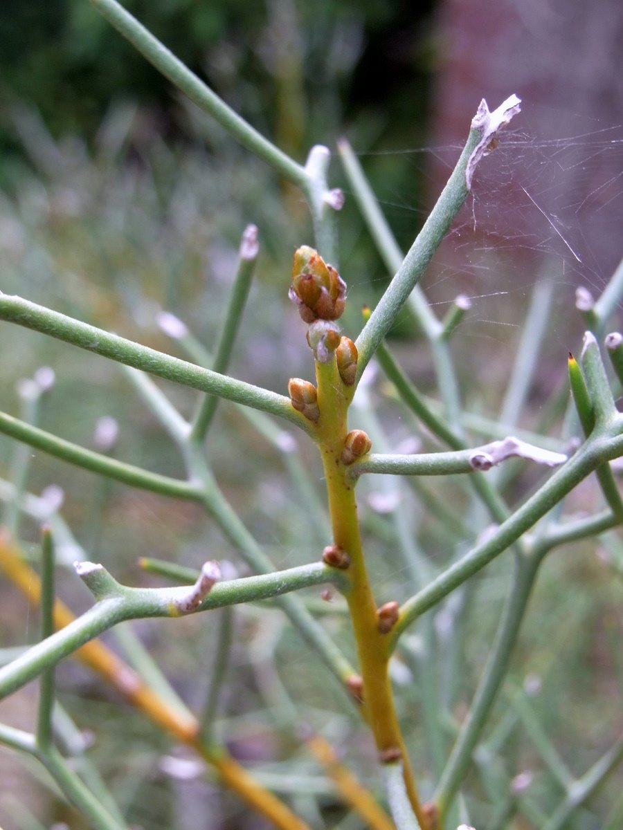 Hakea pulvinifera, labelled at the National Botanic Gardens, Canberra, Australia